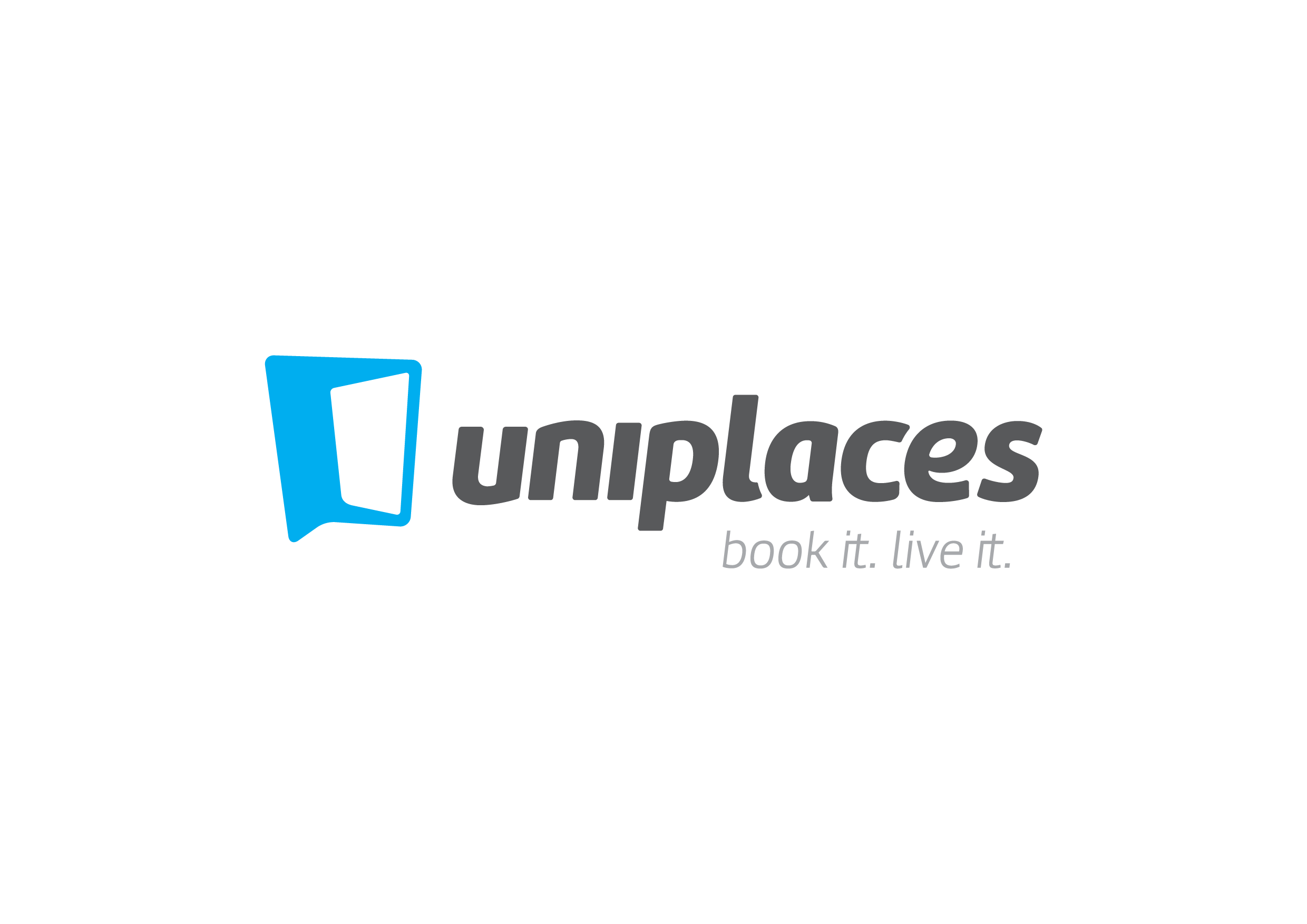 Uniplaces Horizontal Full Logo